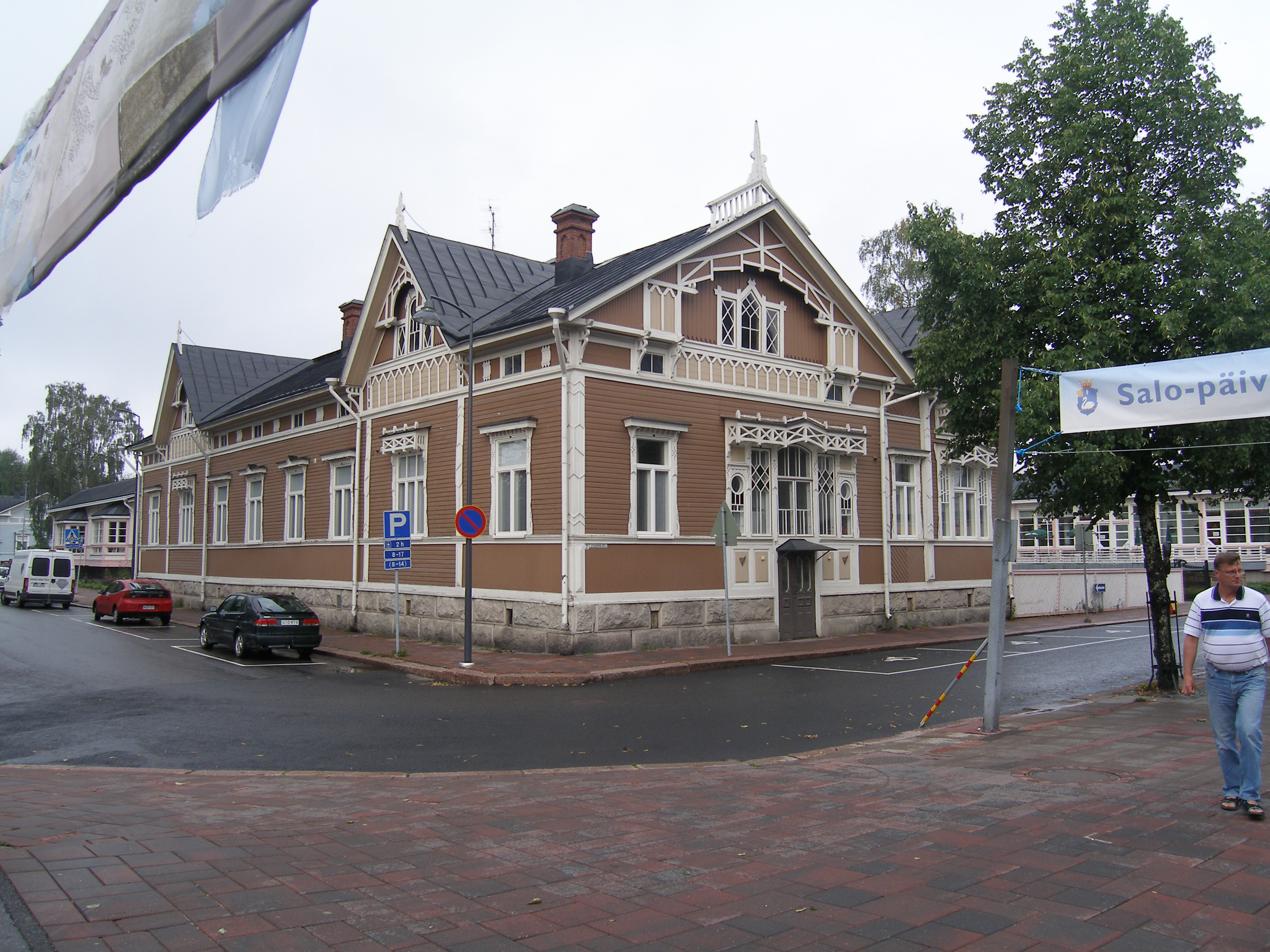 old building Salo